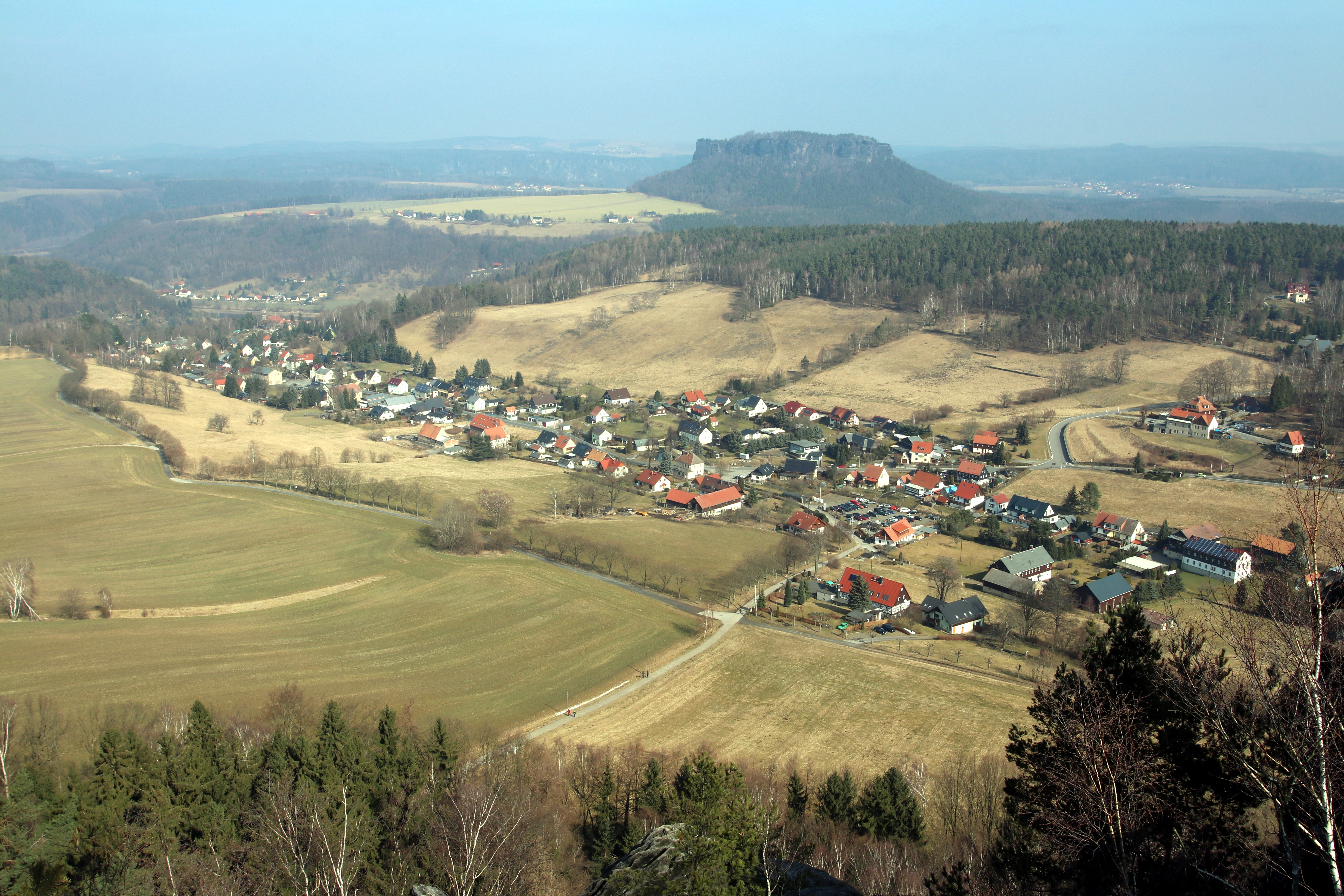 The Pfaffenstein, formerly called the Jungfernstein, is a table hill, 434.6 m (1,426 ft) above sea level, in the Elbe Sandstone Mountains in Saxony, Germany. It is also a nature reserve.